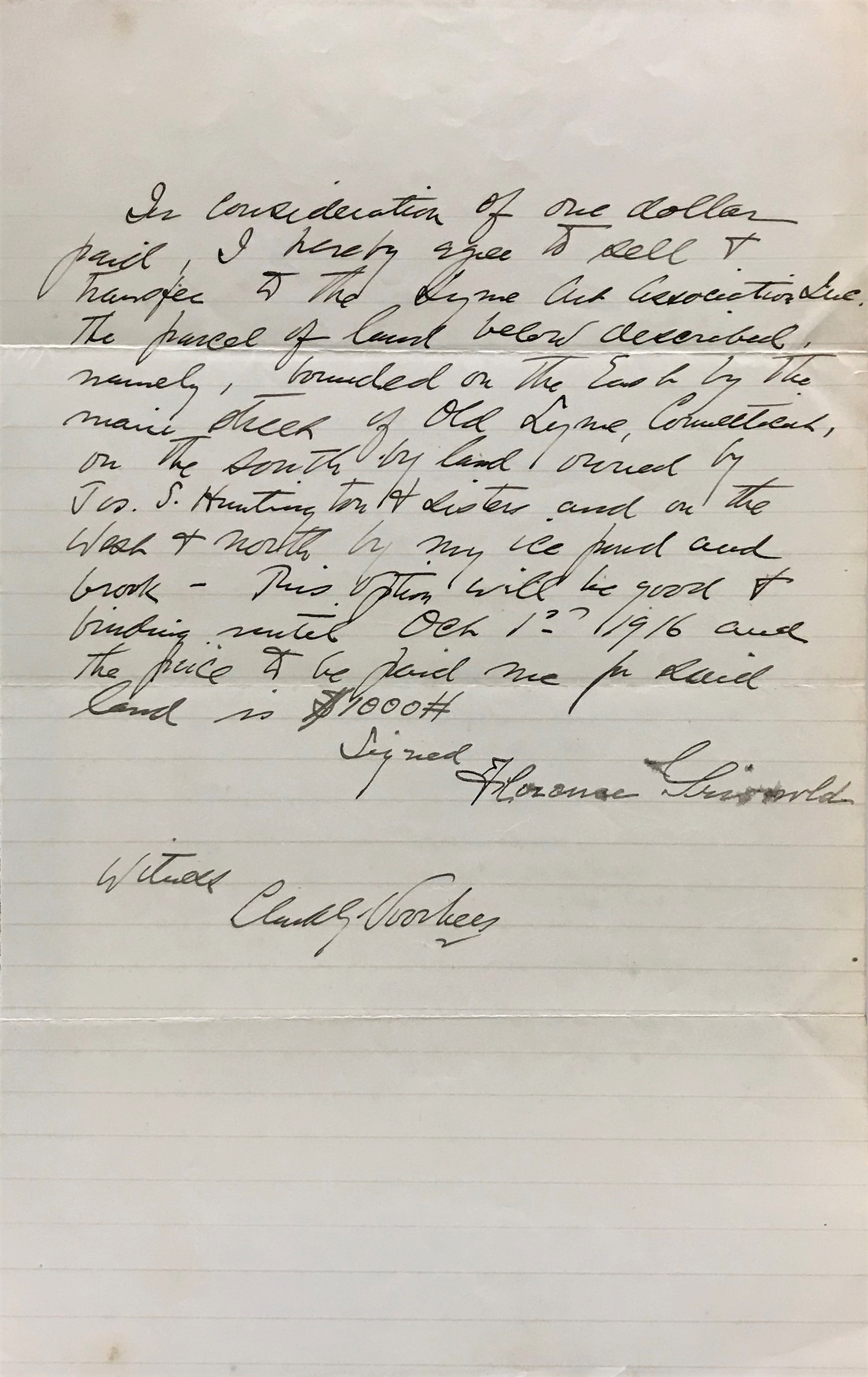 Site Option by Florence Griswold for Lyme Art Association, Inc. from 1914. The site is located in Old Lyme, Connecticut, and is the current site of Lyme Art Association Gallery. Text from land option: In consideration of one dollar paid, I hereby agree to sell & transfer to The Lyme Art Association Inc. the parcel of land below described, namely bounded on the East by the main street of Old Lyme, Connecticut, on the south by land owned by Jos. S, Huntington & sisters and on the West & North by my ice pond and brook - This option will be good & binding until Oct 1st 1916 and the price to be paid me for said land is $1000# Signed Florence Griswold Witness Clark Voorhees